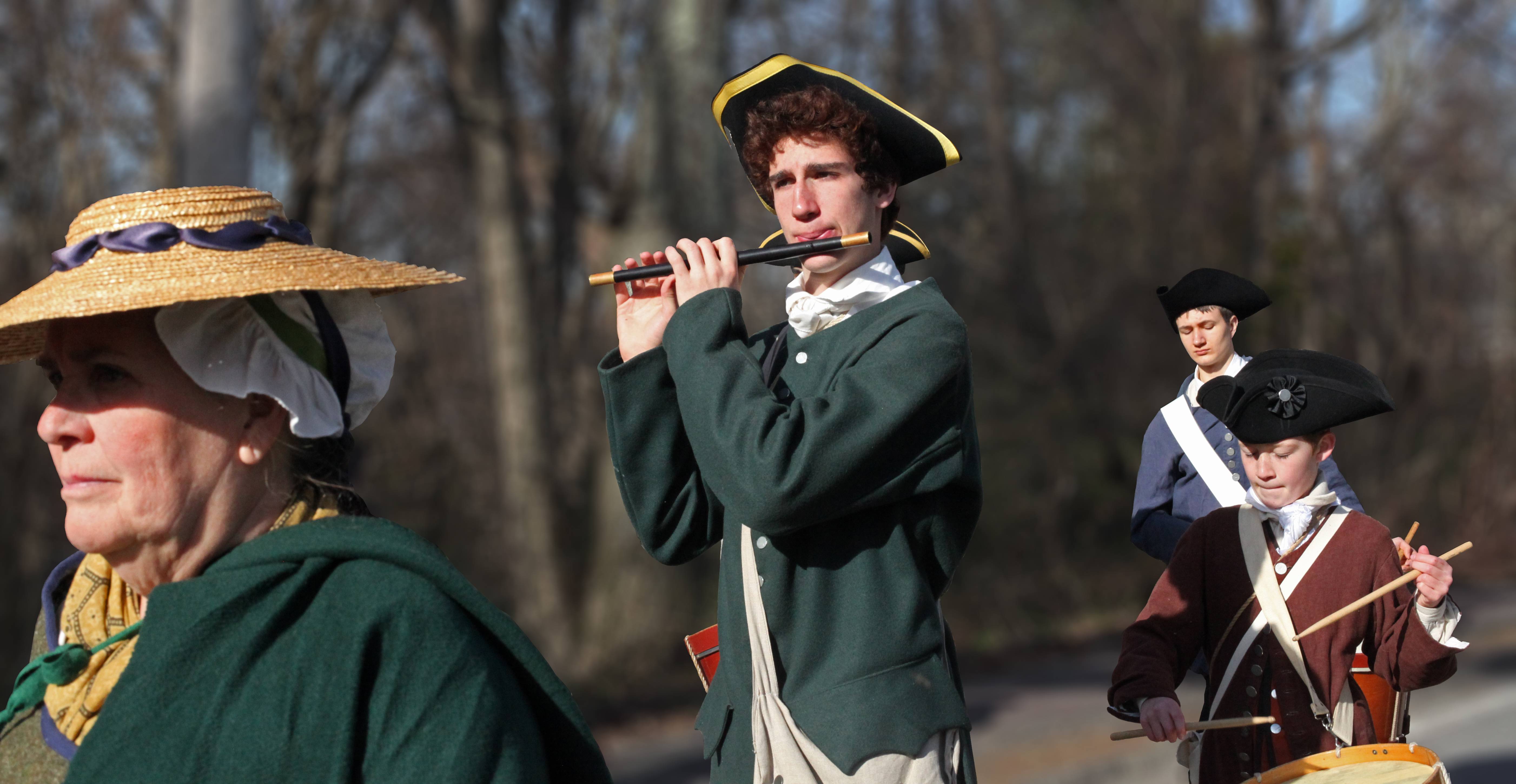 A citizen of Acton and Members of the Acton Fife and Drum Corps marching to Concord on the Isaac Davis Trail druing the 2016 annual Patriots Day celebration.